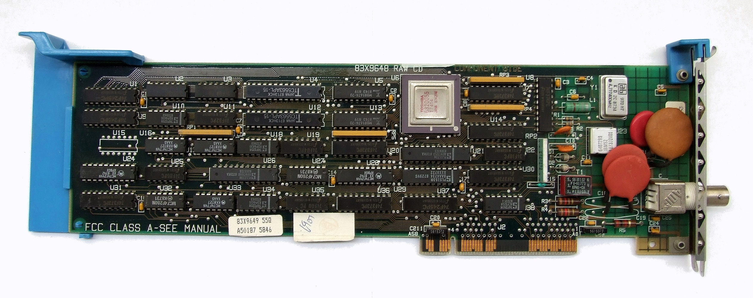 Network Interface Card IBM 83X9648 (Micro Channel Architecture, 16 Bit slot)